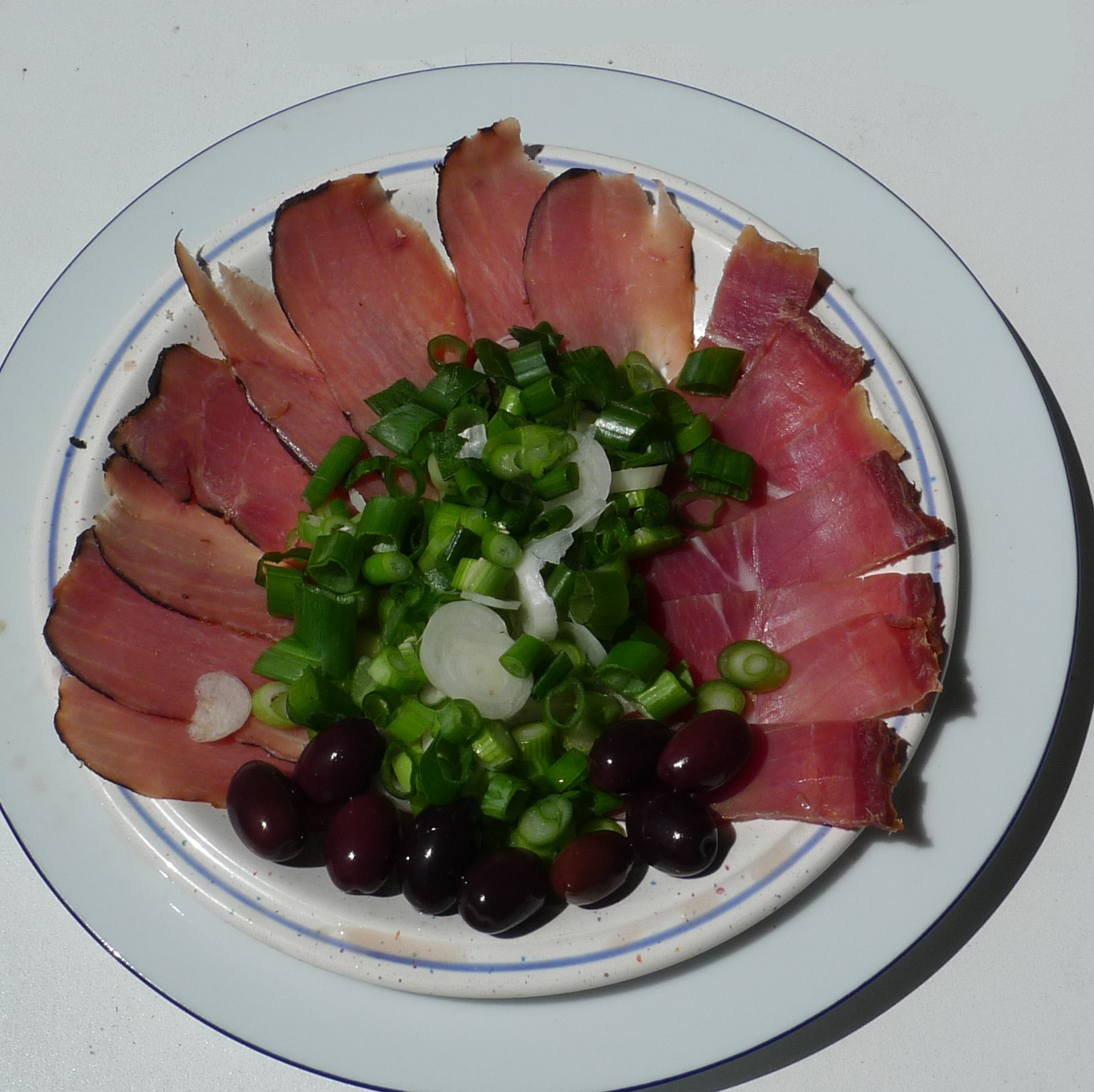 Meat mezes with sliced Luntza (left), Chiromeri (right) Onions and Olives